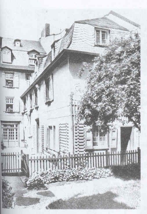 The house where Beethoven was born